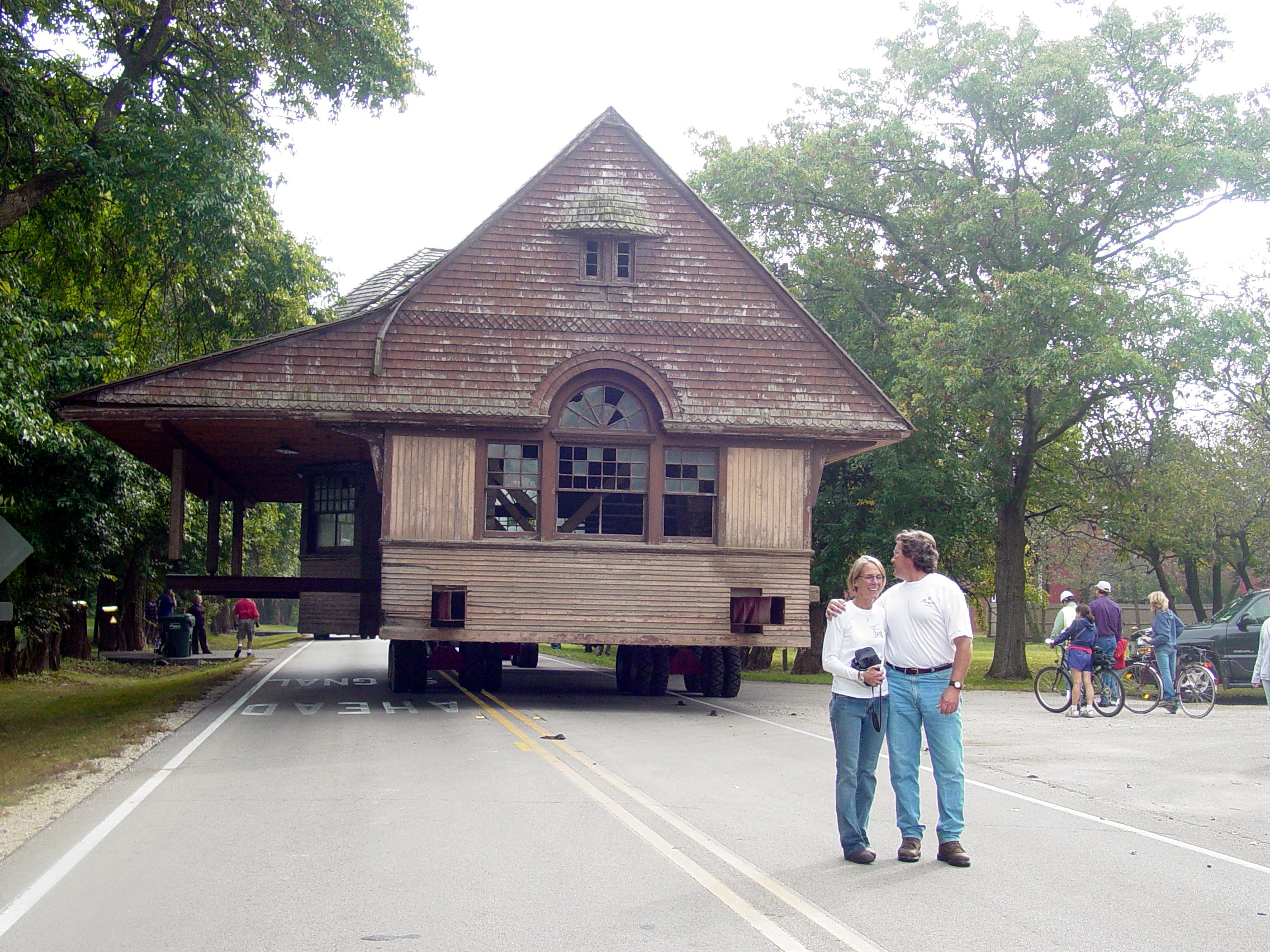 Wayne IL. Move of Depot from Dunham Castle to rail tracks. Eastbound photo on Army Trail Rd.